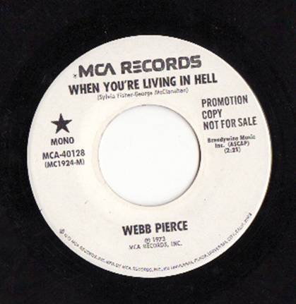 When You're Living in Hell by Webb Pierce, MCA 1973.